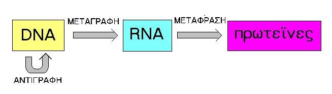 Old central dogma of molecular biology